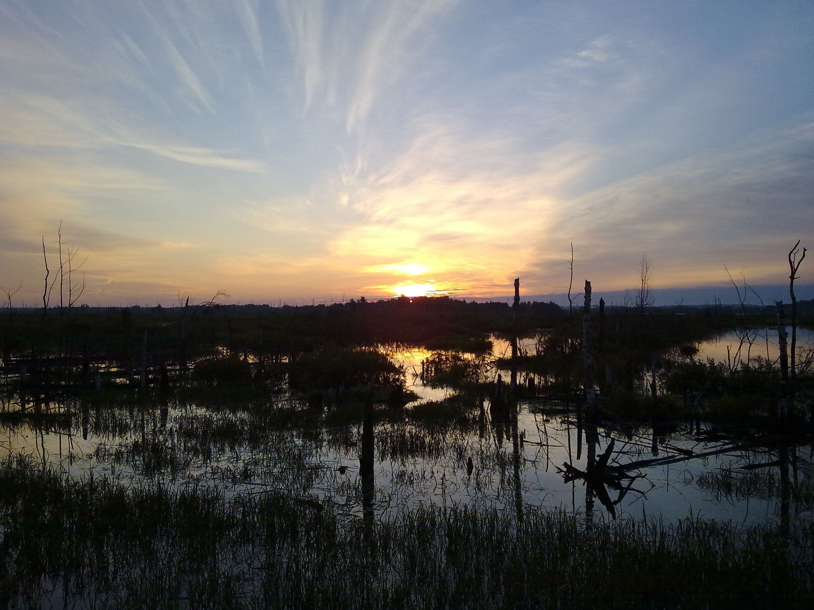 Sitniki ornithological reserve near Sitniki, Nizhegorodsky region, Russia. Formerly a peat bog. Since 1930s, the peat has been harvested to be used as fuel and soil amendment. In 1980s the area was recultivated as a wetland and inhabited by various breeds of waterfowl. It is also known for good pike fishing.